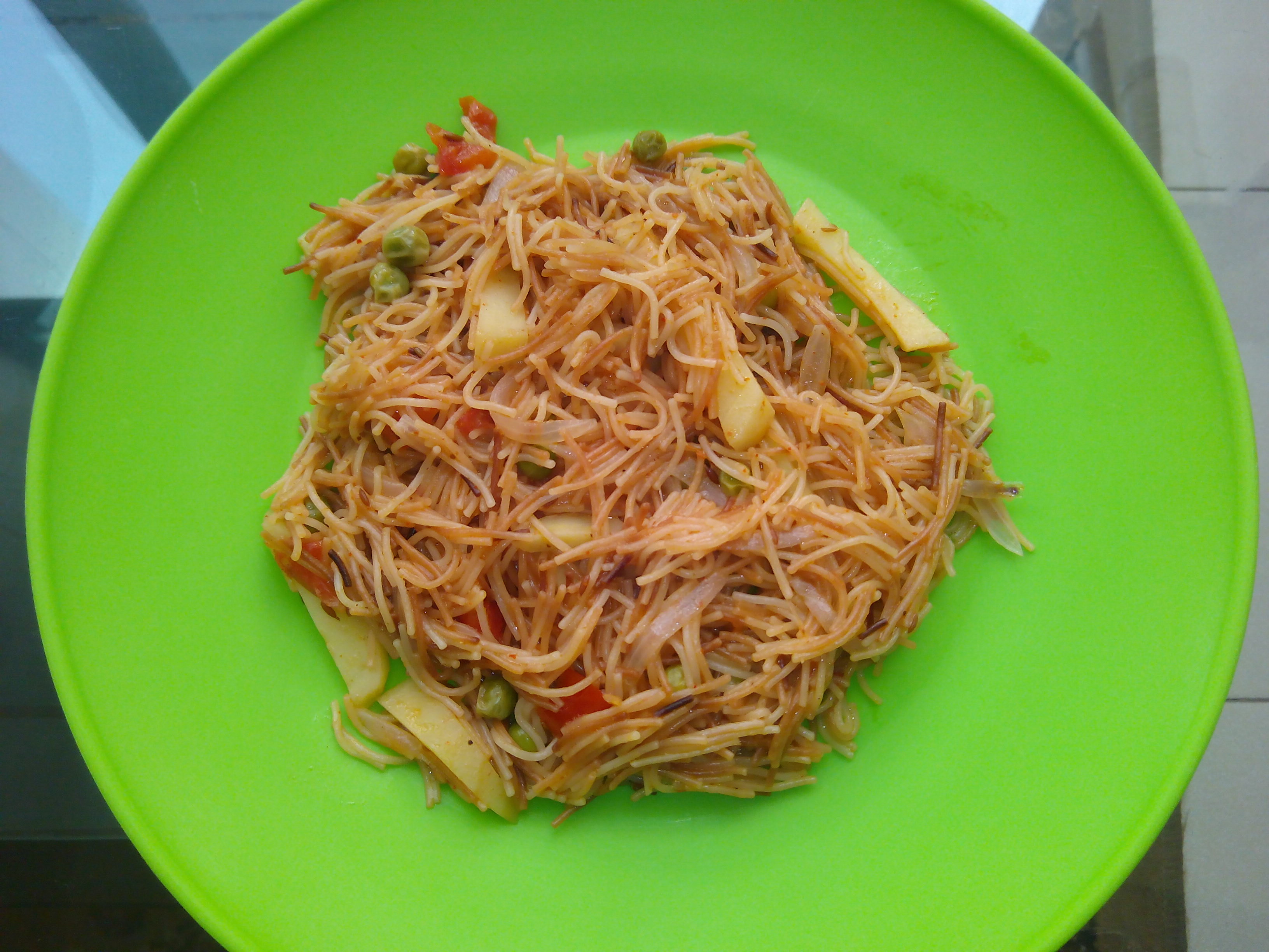 Vegetable and Vermicelli, locally known as Namkeen Seviyan from India